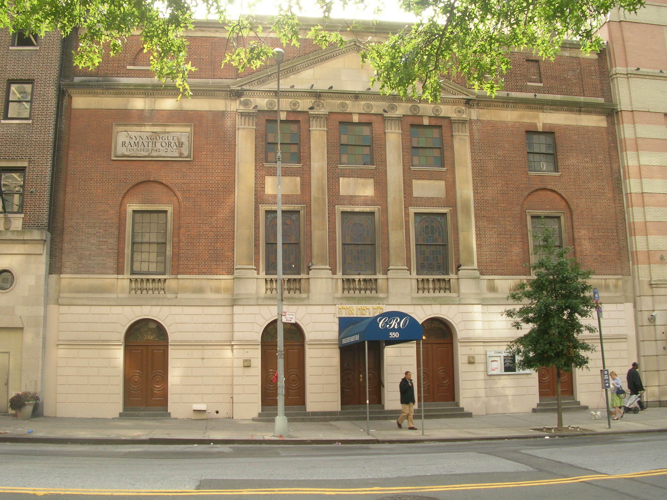 This photo is of Wikis Take Manhattan goal code A23, Ramath Orah.